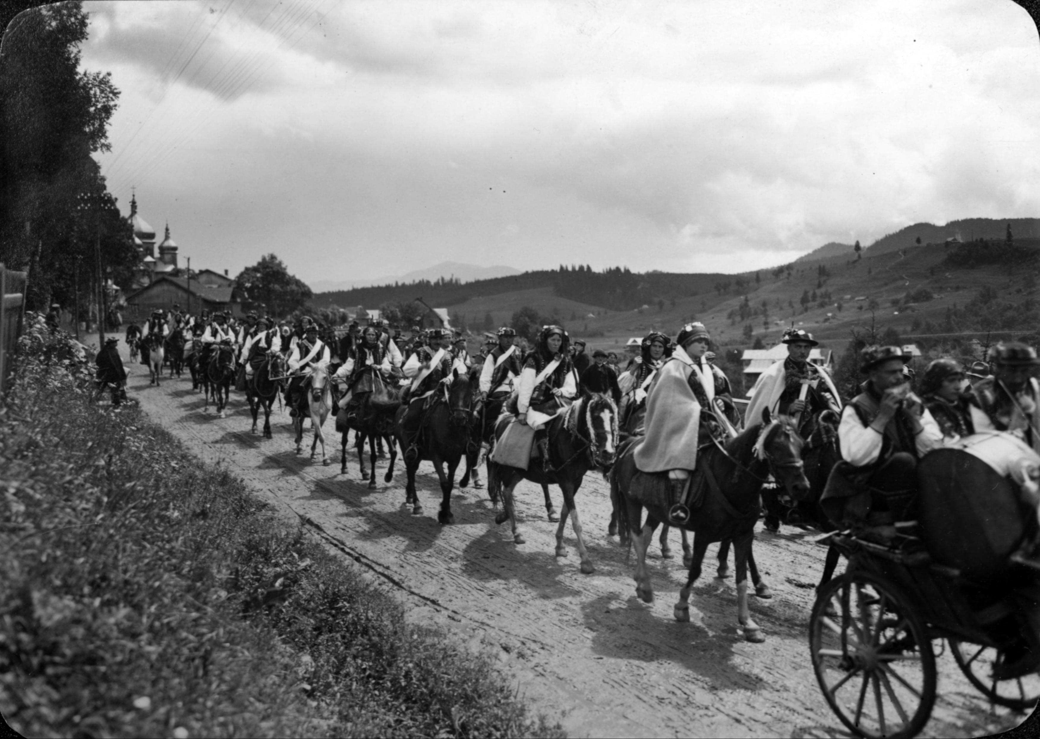 Ukrainian Hutsuls in traditional dress in wedding ceremony in Vorokhta (Yaremche district), Ivano-Frankivsk region of western Ukraine. Old prewar photograph, 1934. Hutsuls are western Ukrainian highlanders from the Carpathian mountains.